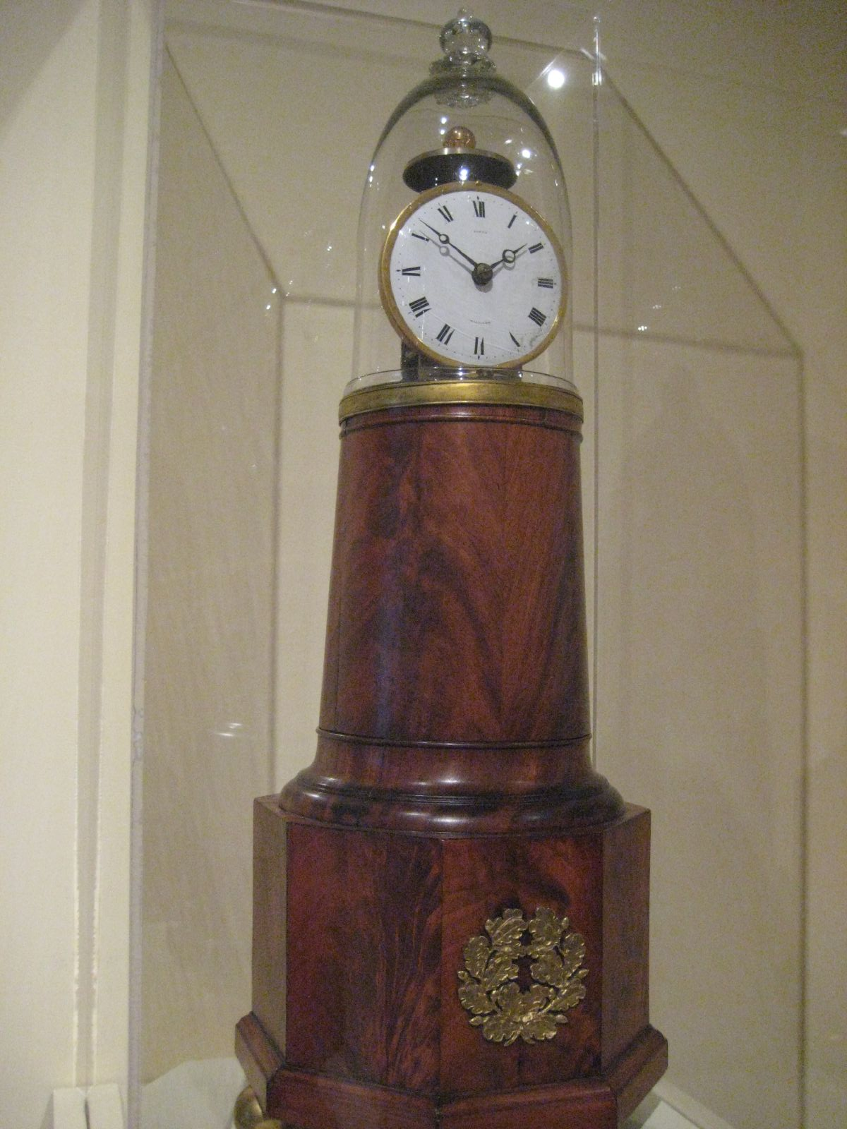 A ca. 1825-30 lighthouse clock in mahogany by Simon Willard. Metropolitan Museum of Art. New York.